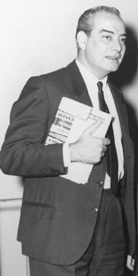 Jose Maria Gutierrez- actor